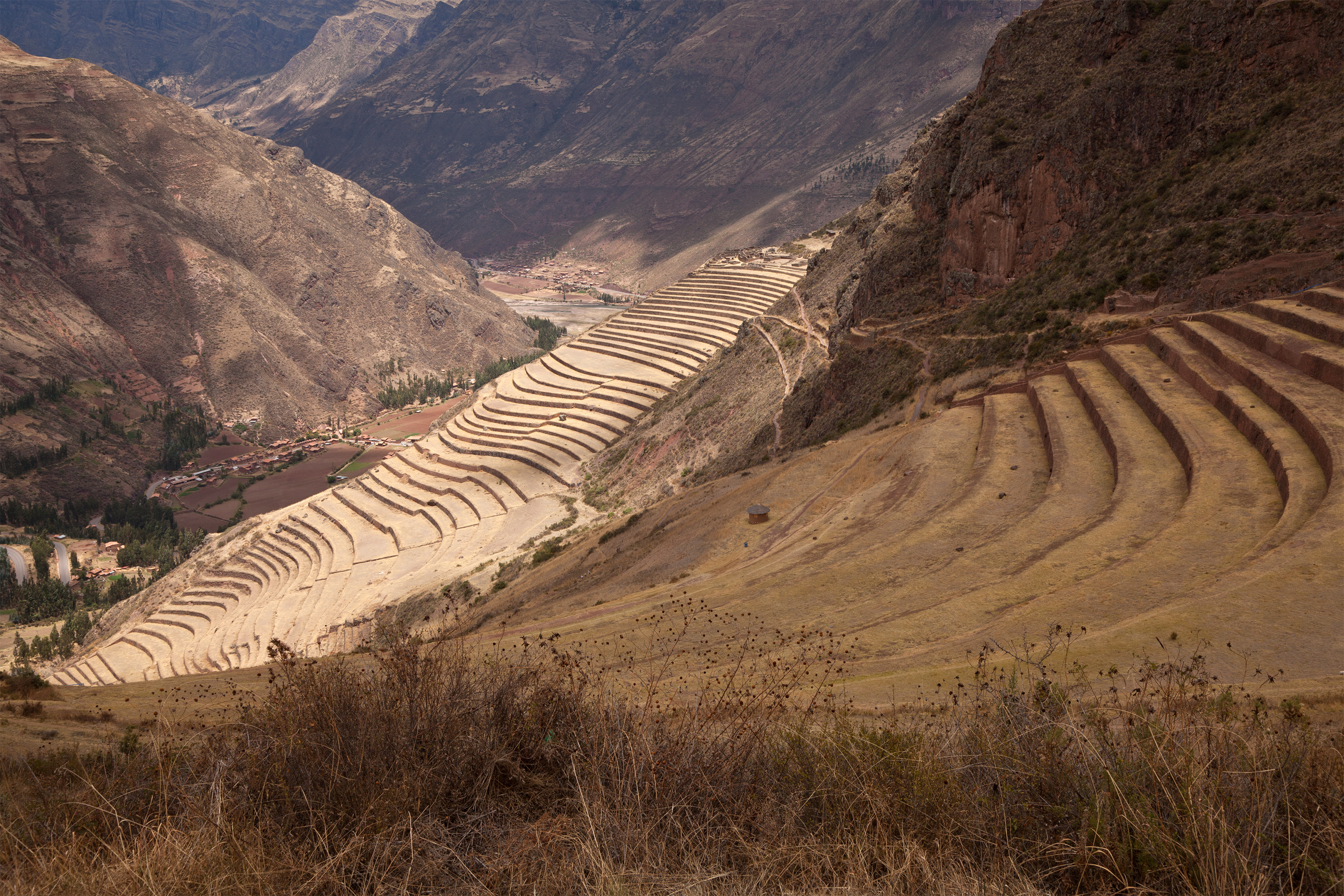 Písac, Peru, agricultural terraces